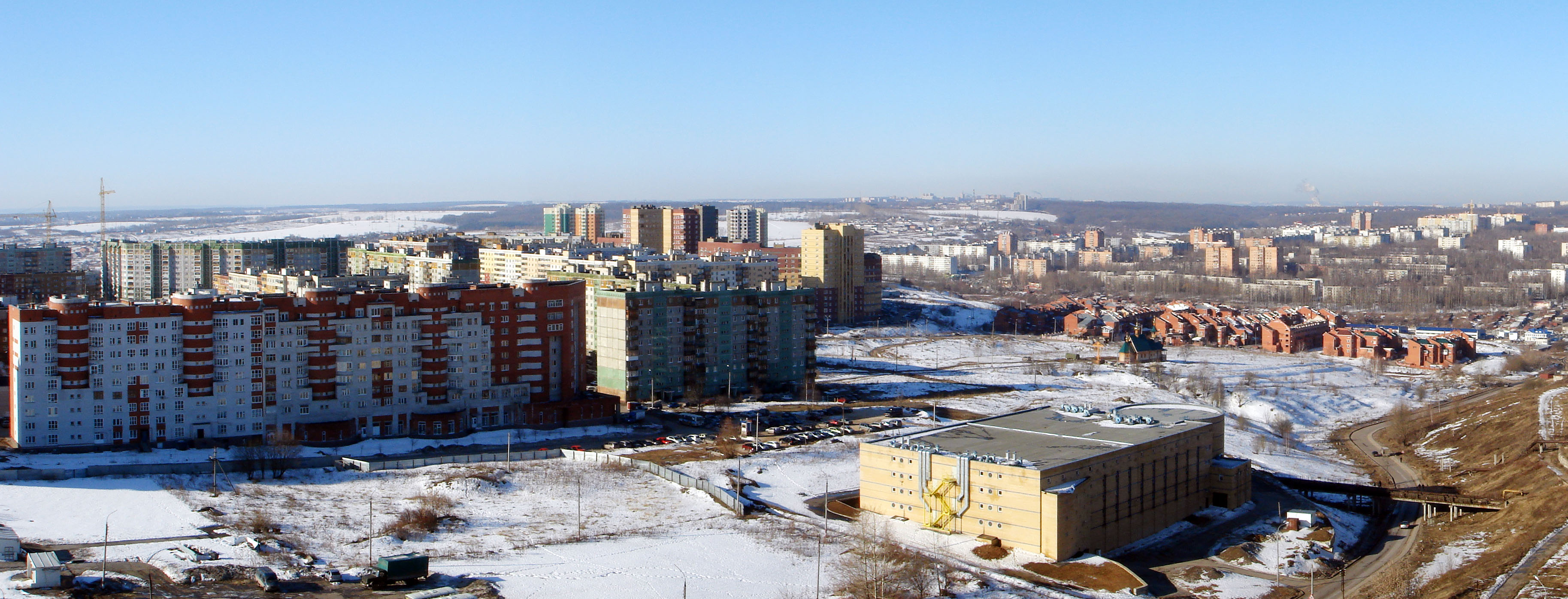 V microdistrict "Verknie Pechyory".